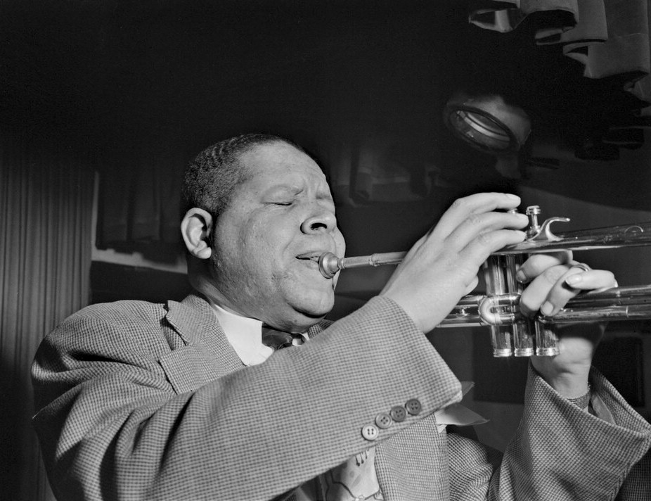 Portrait of Henry Allen, Onyx, New York, N.Y., ca. May 1946